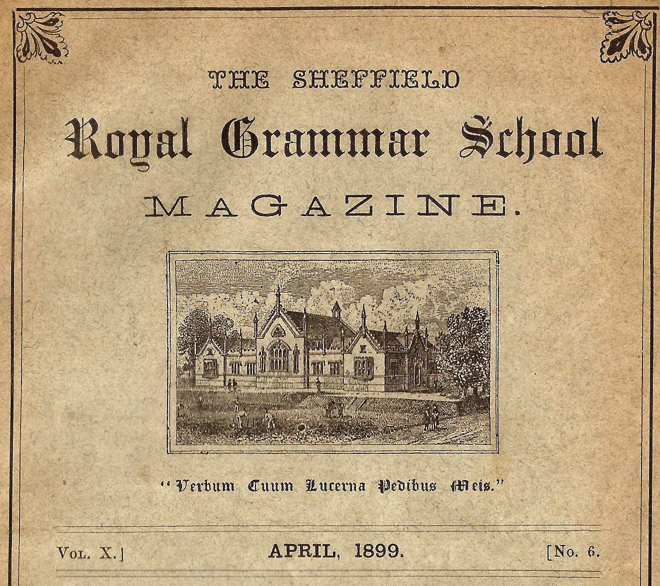 Scan of front cover of The Sheffield Royal Grammar School Magazine, April 1899